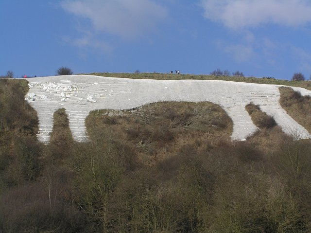 Kilburn White Horse From the car park below Roulston Scar.